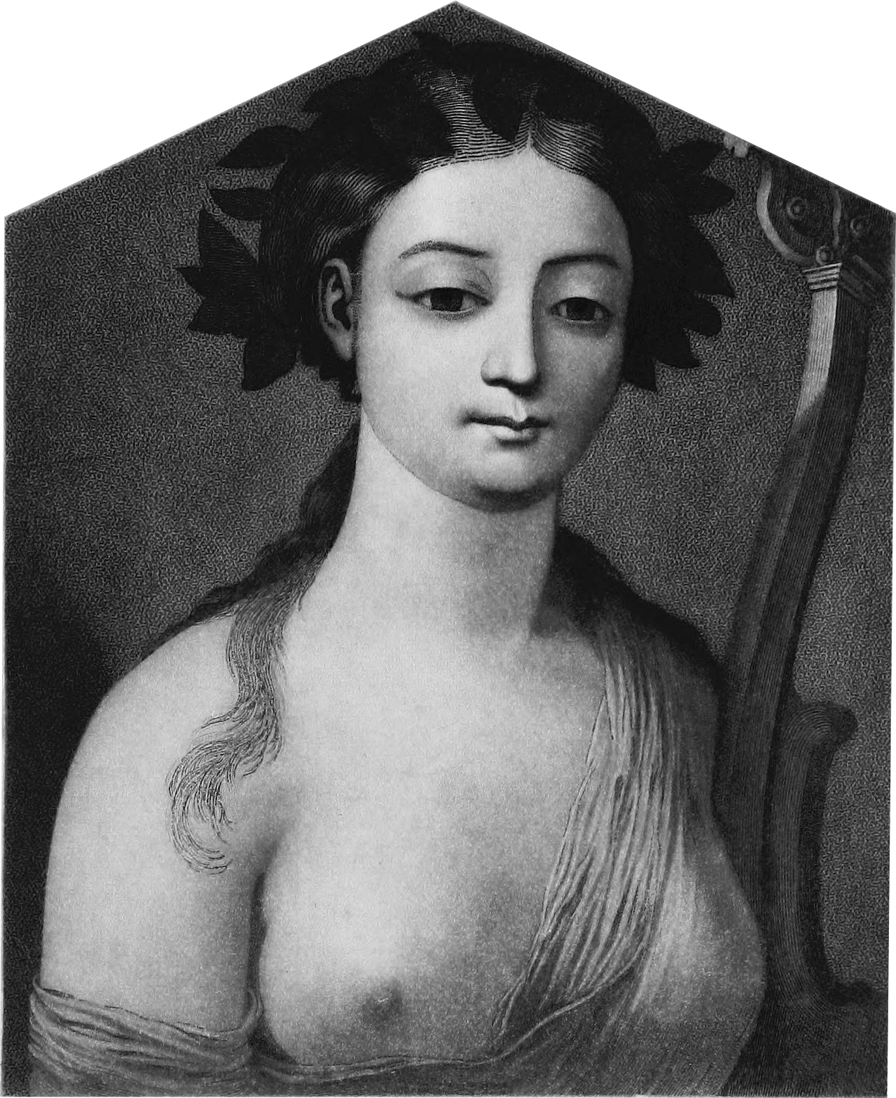 Muse of Cortona; ancient painting